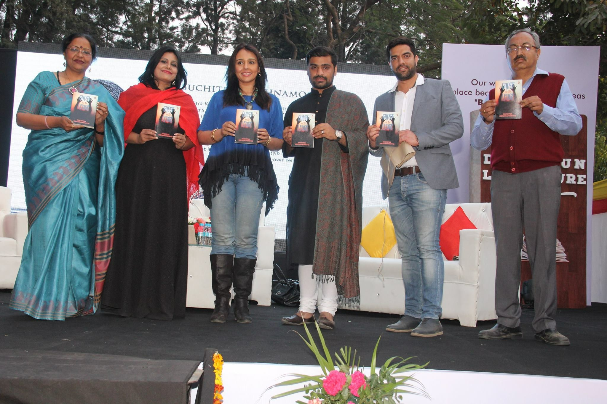 Dehradun Literature Festival